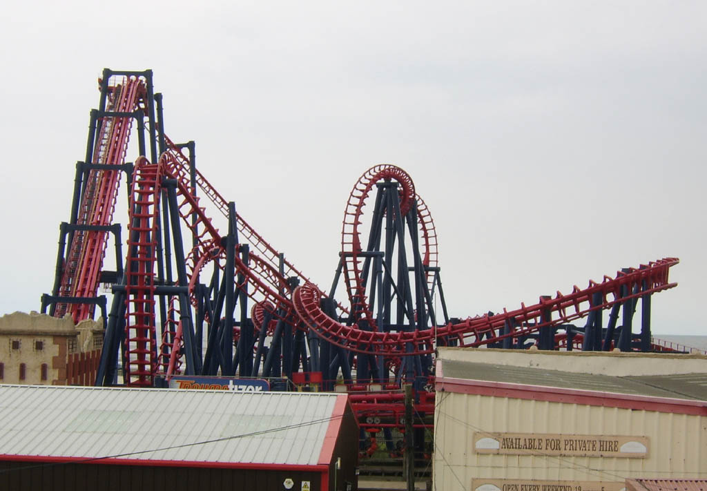 The Traumatizer roller coaster at now defunct Pleasureland Southport Now located at Blackpool Pleasure Beach as Infusion Taken June 2006 (tough the ride "unfortunately" was broken down that day)